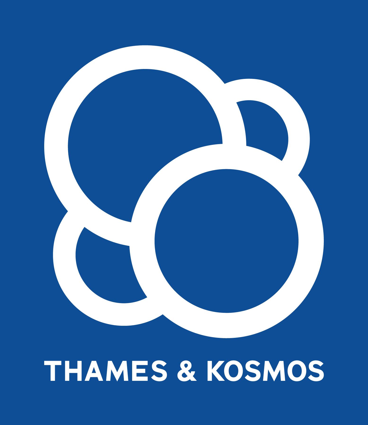 T&K Logo